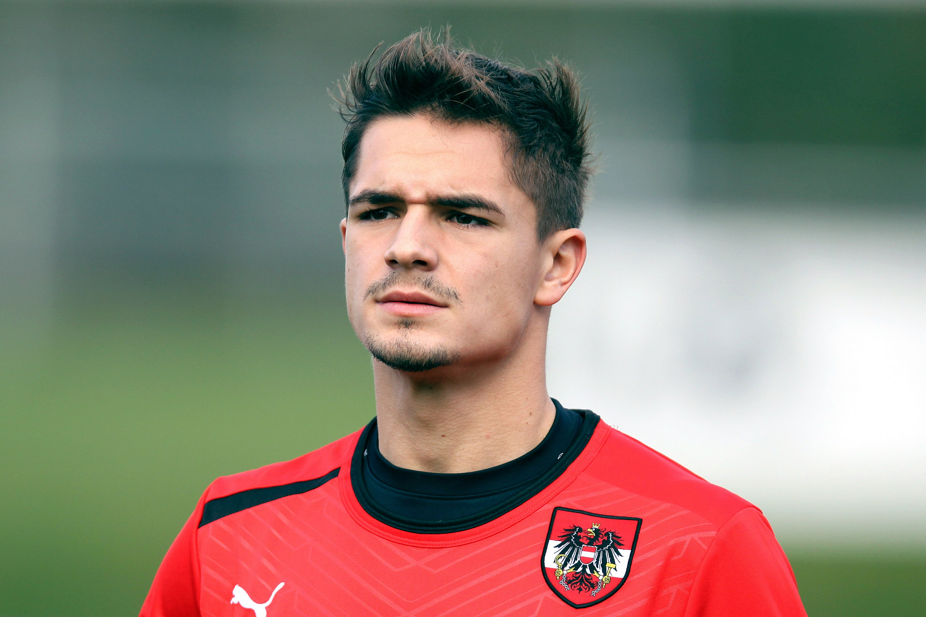 Teamcamp of the Austria national under-21 football team from 9. to 14. Novembber 2015 in Bad Erlach – The photo shows Nikola Dovedan (LASK Linz).